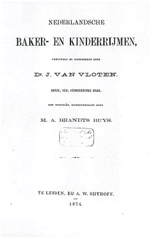 First page of the Dutch children's song book "Nederlandsche baker- en kinderrijmen", gathered together by J. van Vloten (3rd print, 1874).